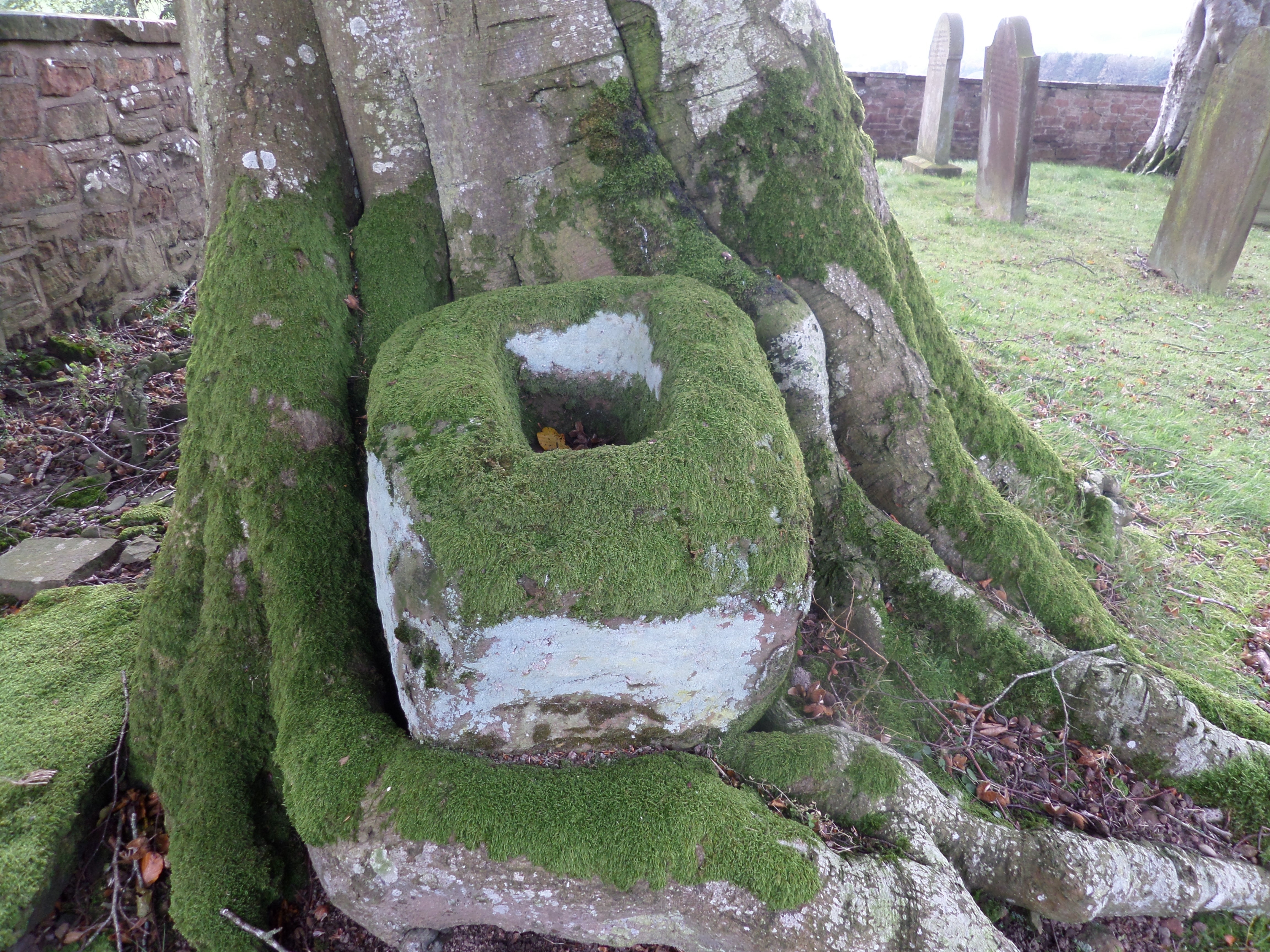 Dalgarnock burial ground entrance with old cross socket, Dumfries & Galloway, Scotland.